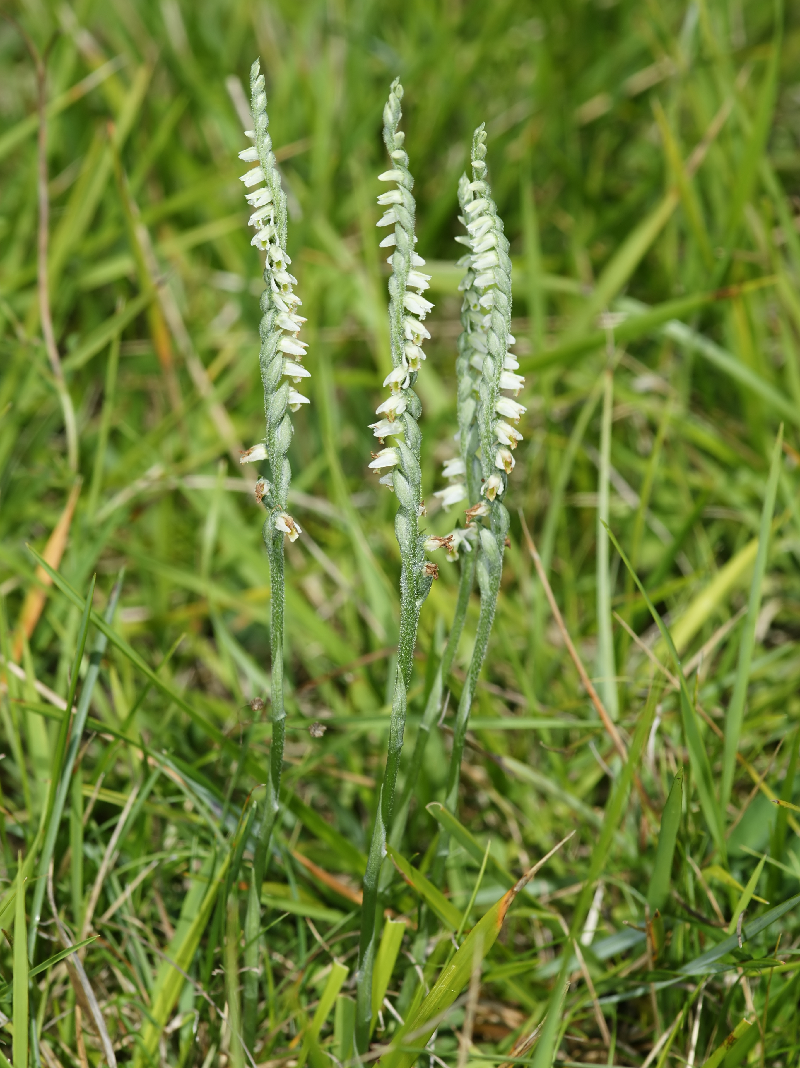 Autumn Lady's-tresses at Riez de Boffles, France.